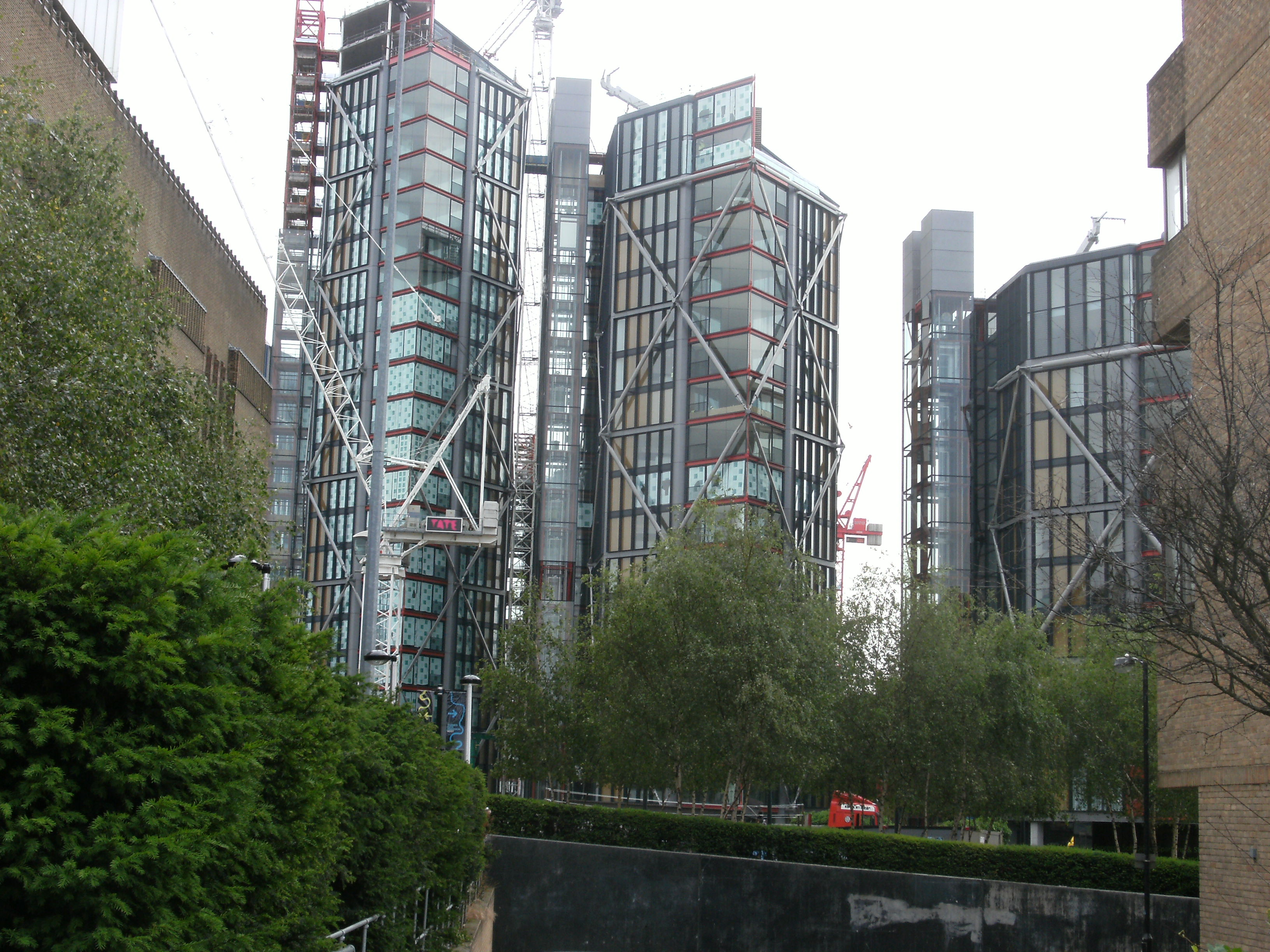 "Neo Bankside" apartment blocks, South Bank, London.